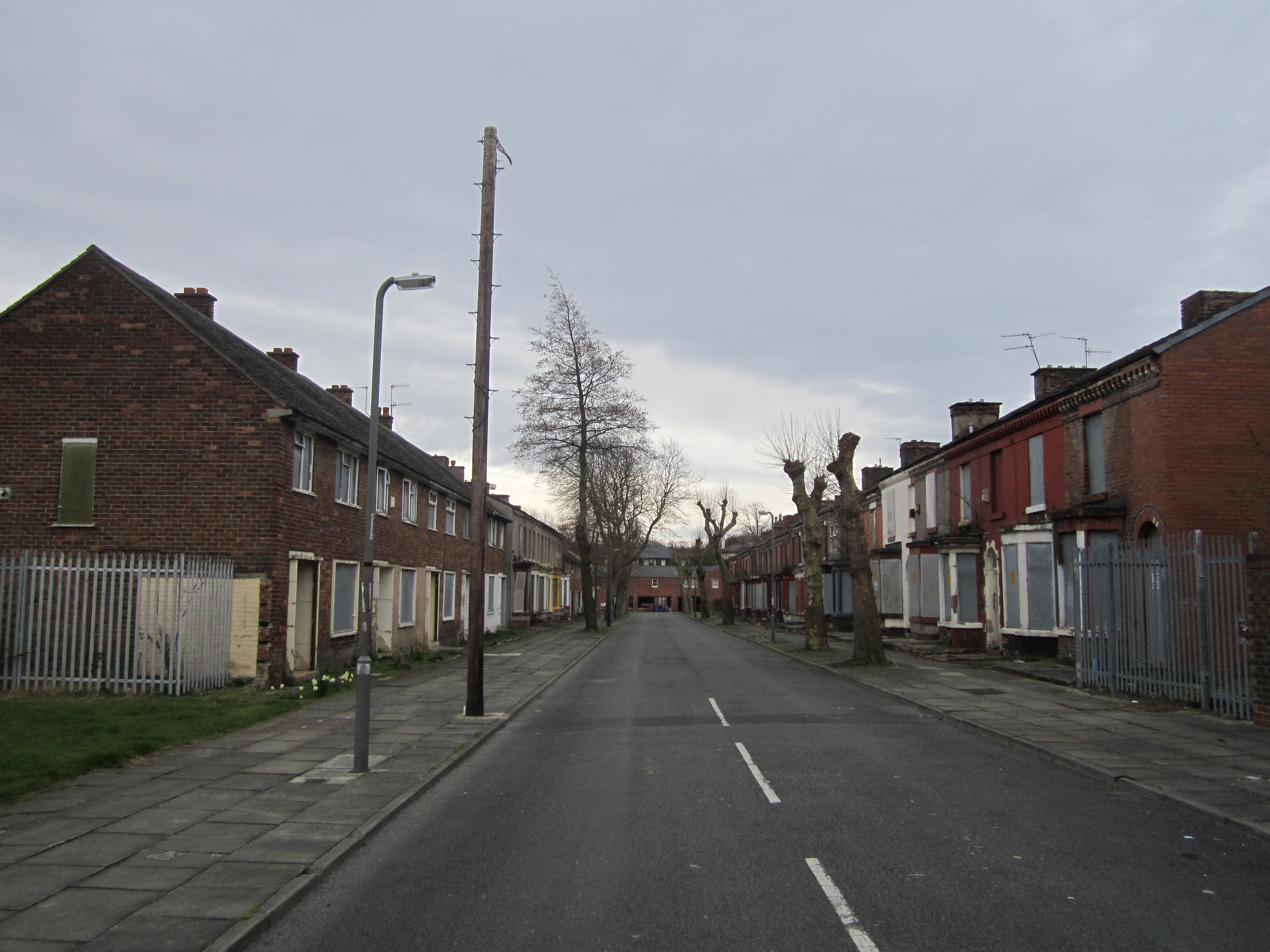 Photo taken at Toxteth, Liverpool, England.